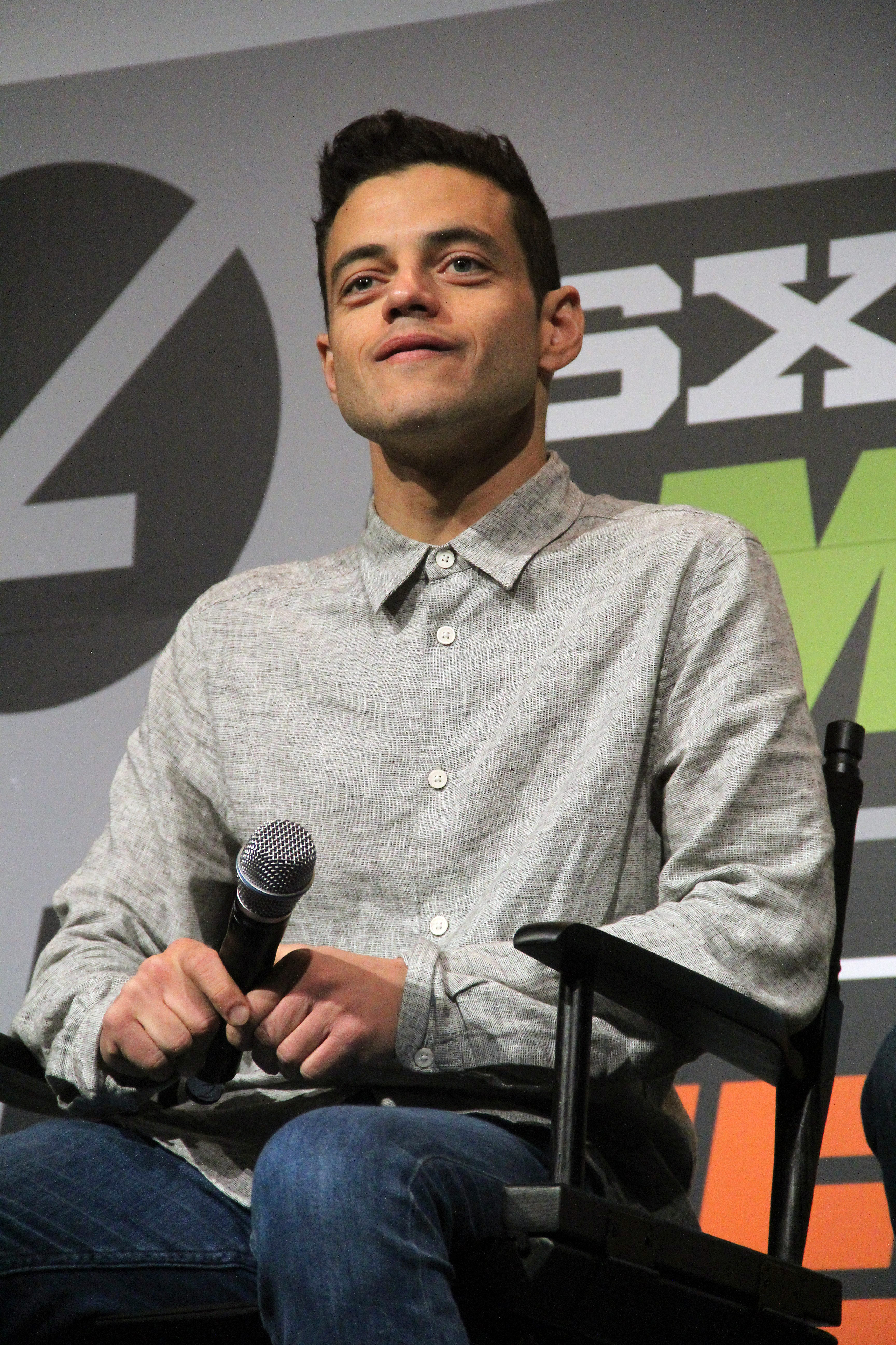 Rami Malek during a panel about Mr. Robot (TV series). Taken at SXSW 2016.